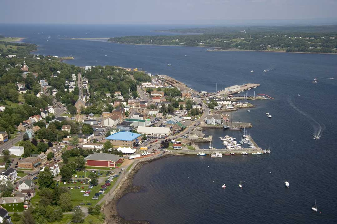 Pictou, Nova Scotia, Canada taken during Lobster Carnival 2006 (Jeff Vienneau, Uploaded by author for use on wiki articles